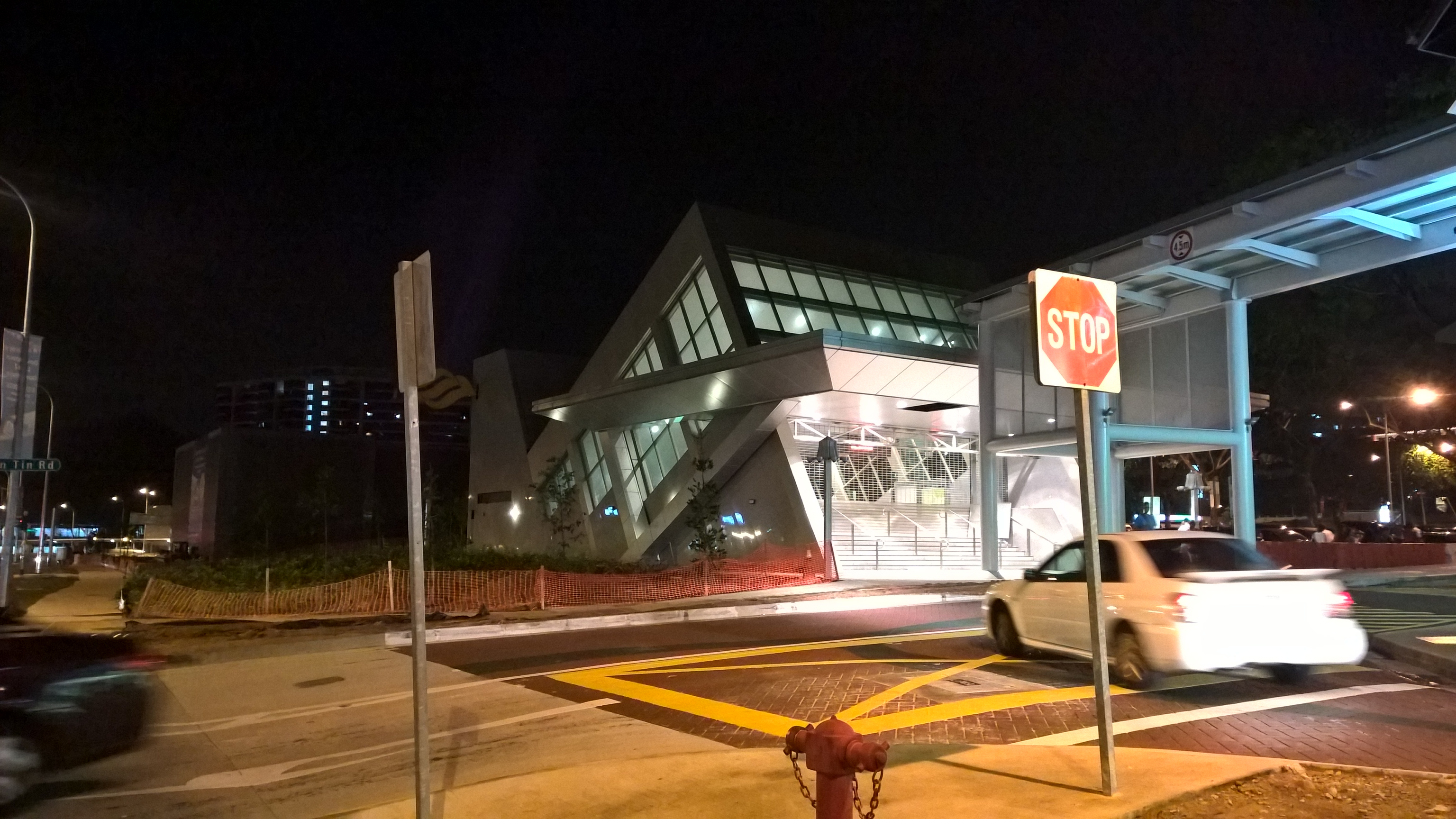 Exit B of Beauty World MRT station, Singapore, at night. (Taken with a Lumia 930.)